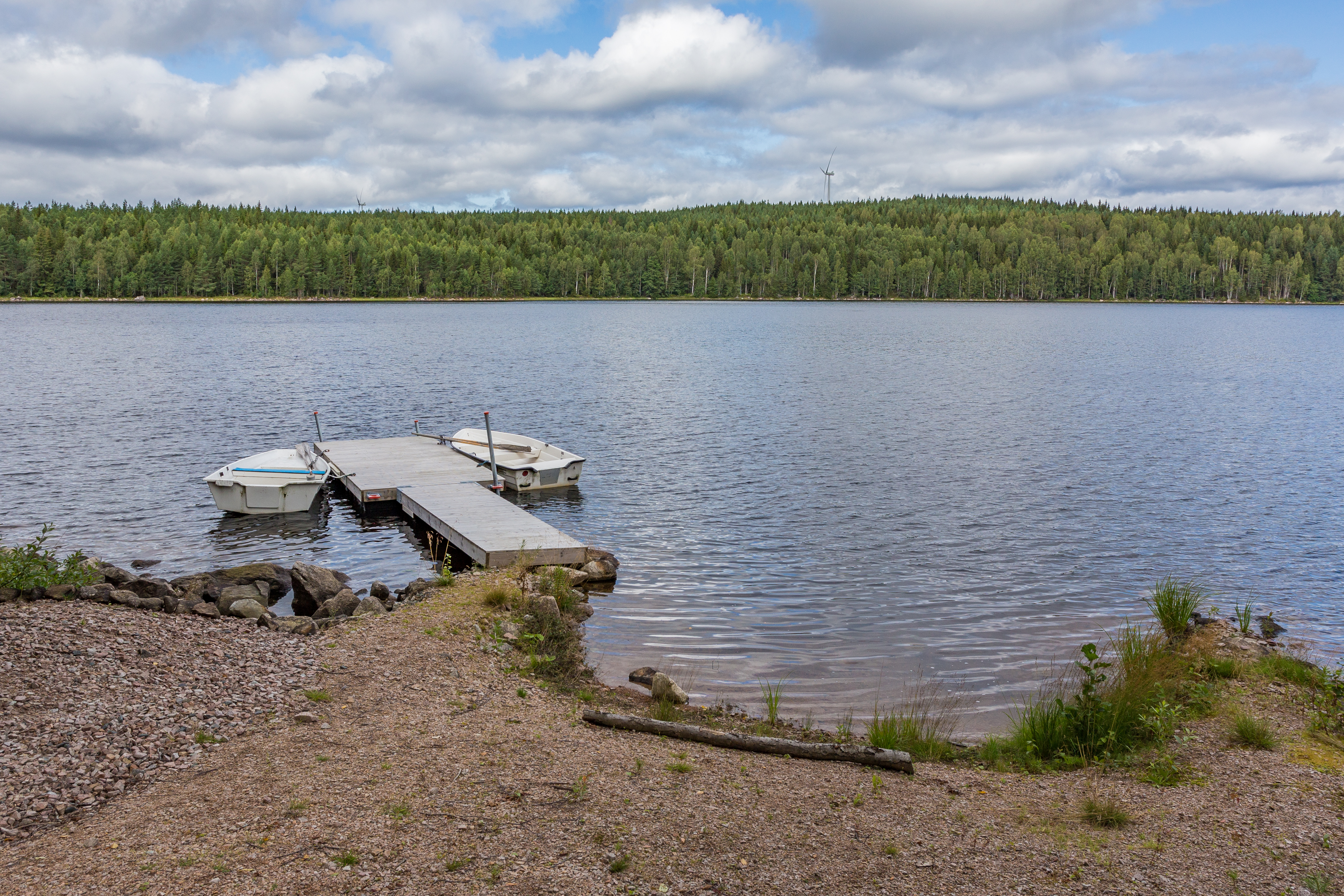 Lake Stora Gransjön, Hedemora municipality, Dalarna county, Sweden